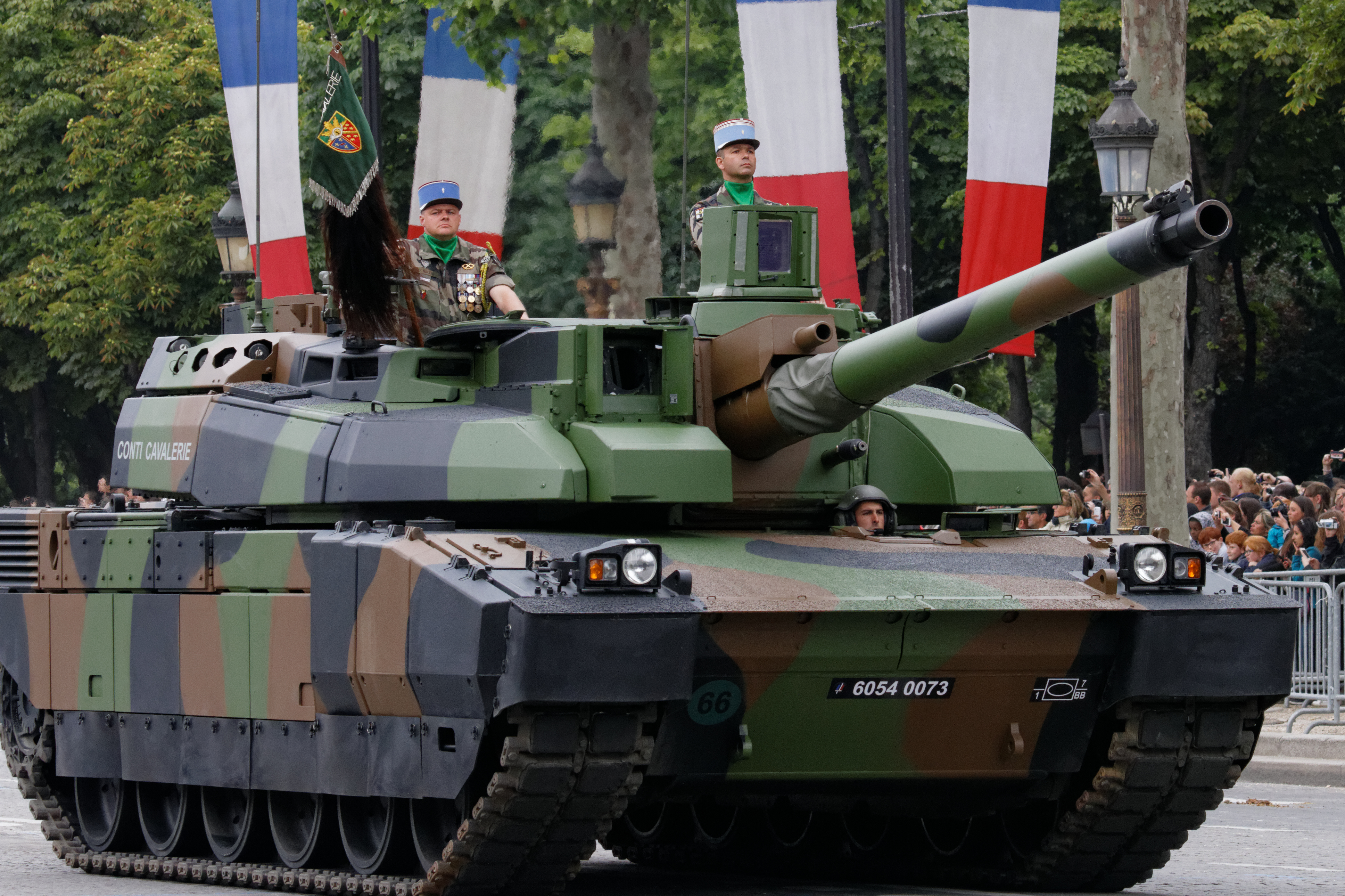 Bastille Day 2014 military parade on the Champs-Élysées in Paris. Motorised troops.